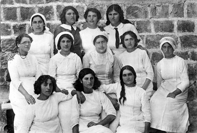 Hana Meizel students in the agraric scool for girls in the Moshava Kine'ret - 1912.